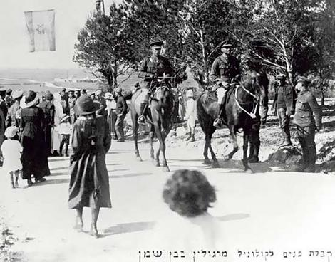 Eliazar Margolin leading the 39th Royal Fusiliers through Bet Shemen in Israel